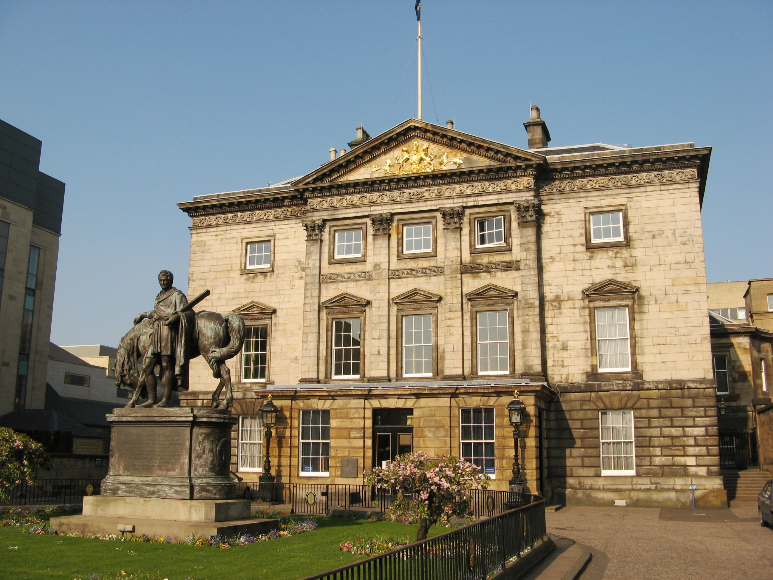 Royal Bank of Scotland, St Andrew Square, Edinburgh. Built as the home of Sir Laurence Dundas by William Chambers in 1771. Became Excise Office in 1794, and the RBS in 1825.